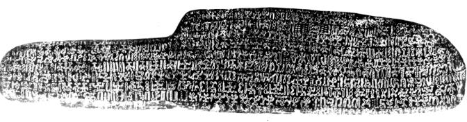 One of 26 rongorongo tablets that may be authentic.